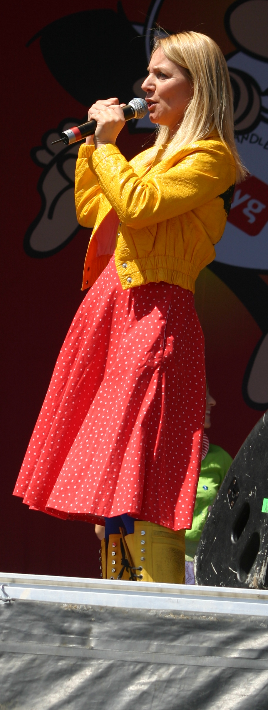 Alberte Winding, Danish singer and actress, at "Åh-Abe" concert in Århus 2006